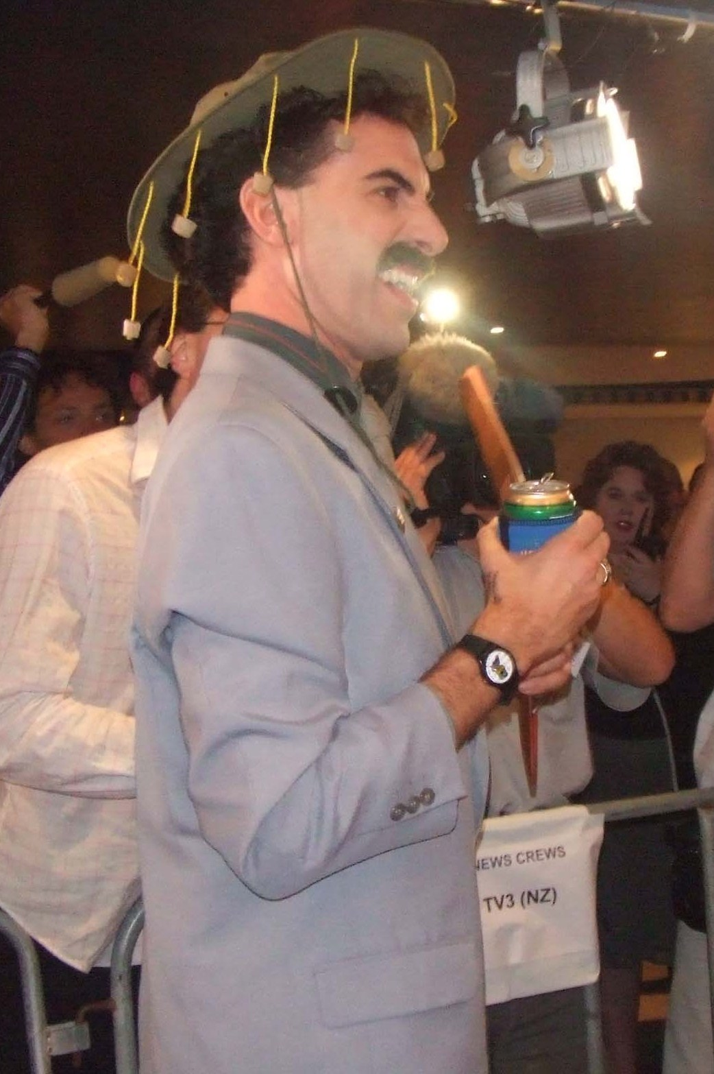 Borat Sagdiyev - the most famous Kazakh in the world.